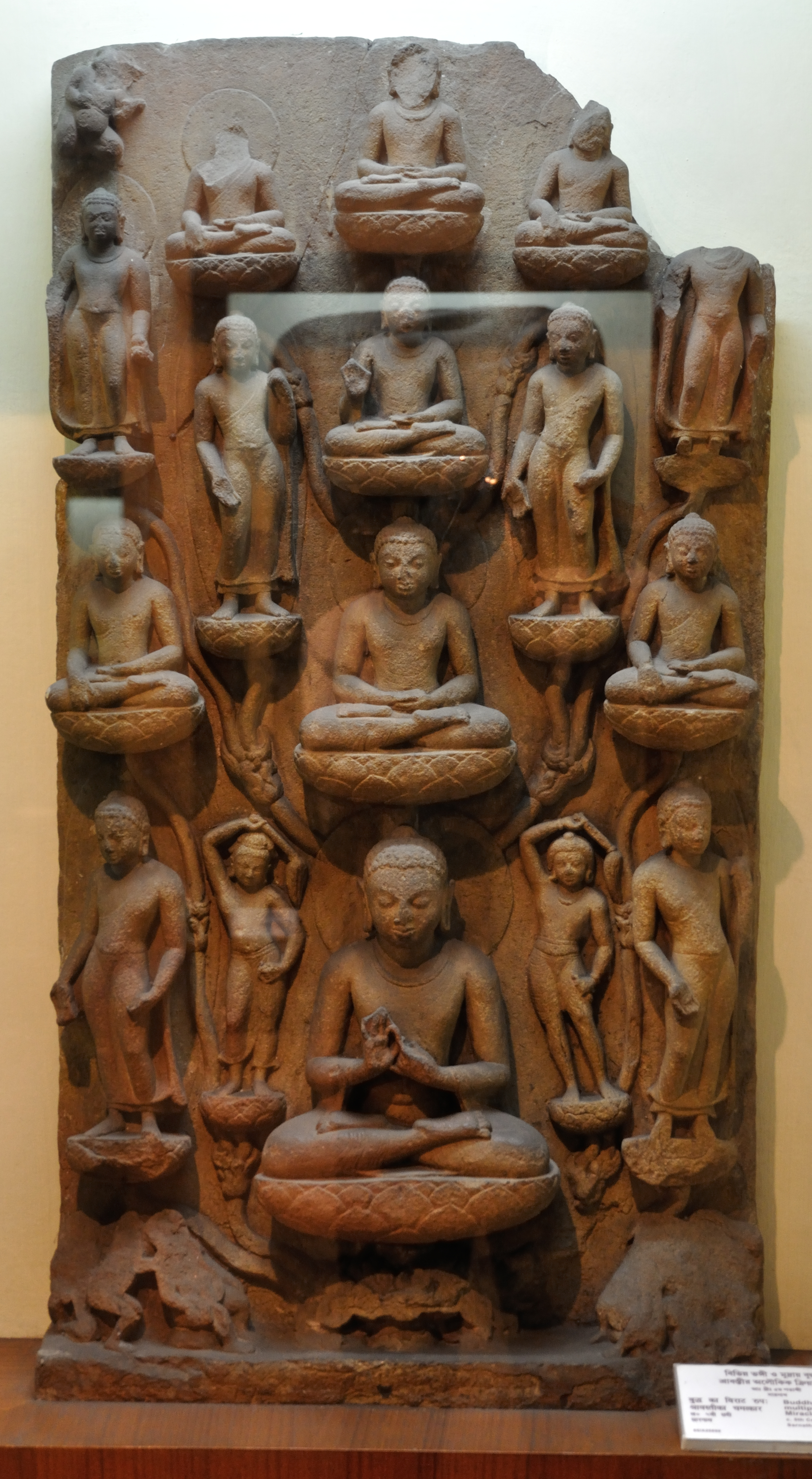 Photographed in the archeology gallery of Indian Museum, Kolkata.